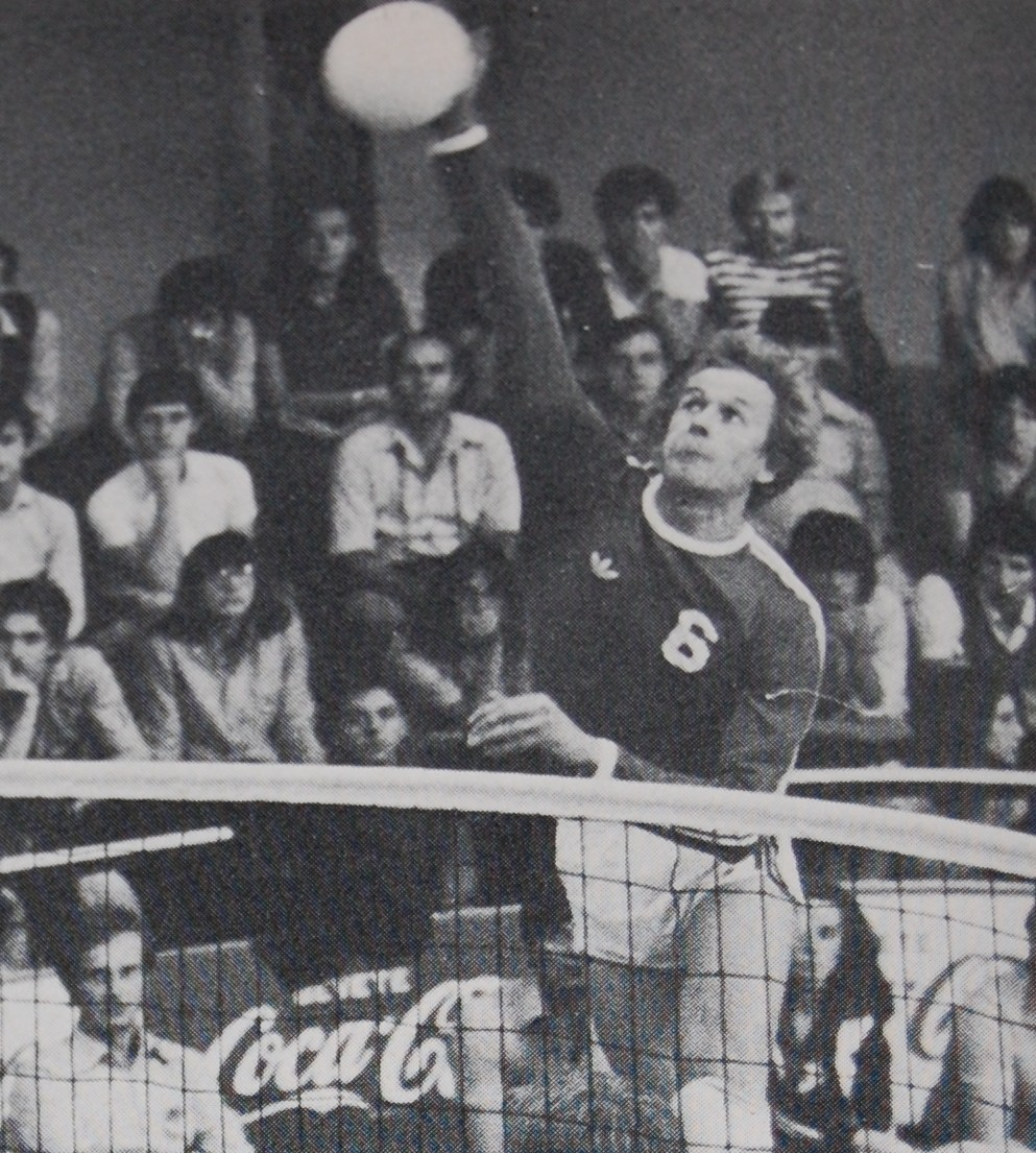 Finland volleyball player Jouni Parkkali hit hard.